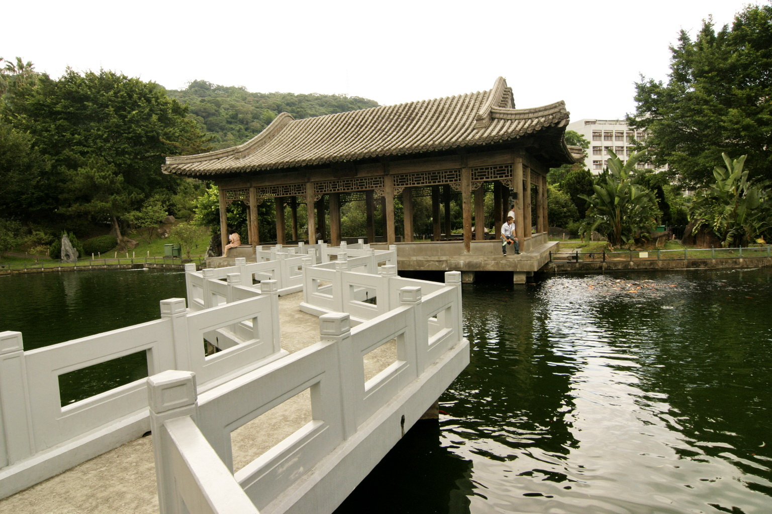 Zhishan Garden at the National Palace Museum in Taipei, Taiwan